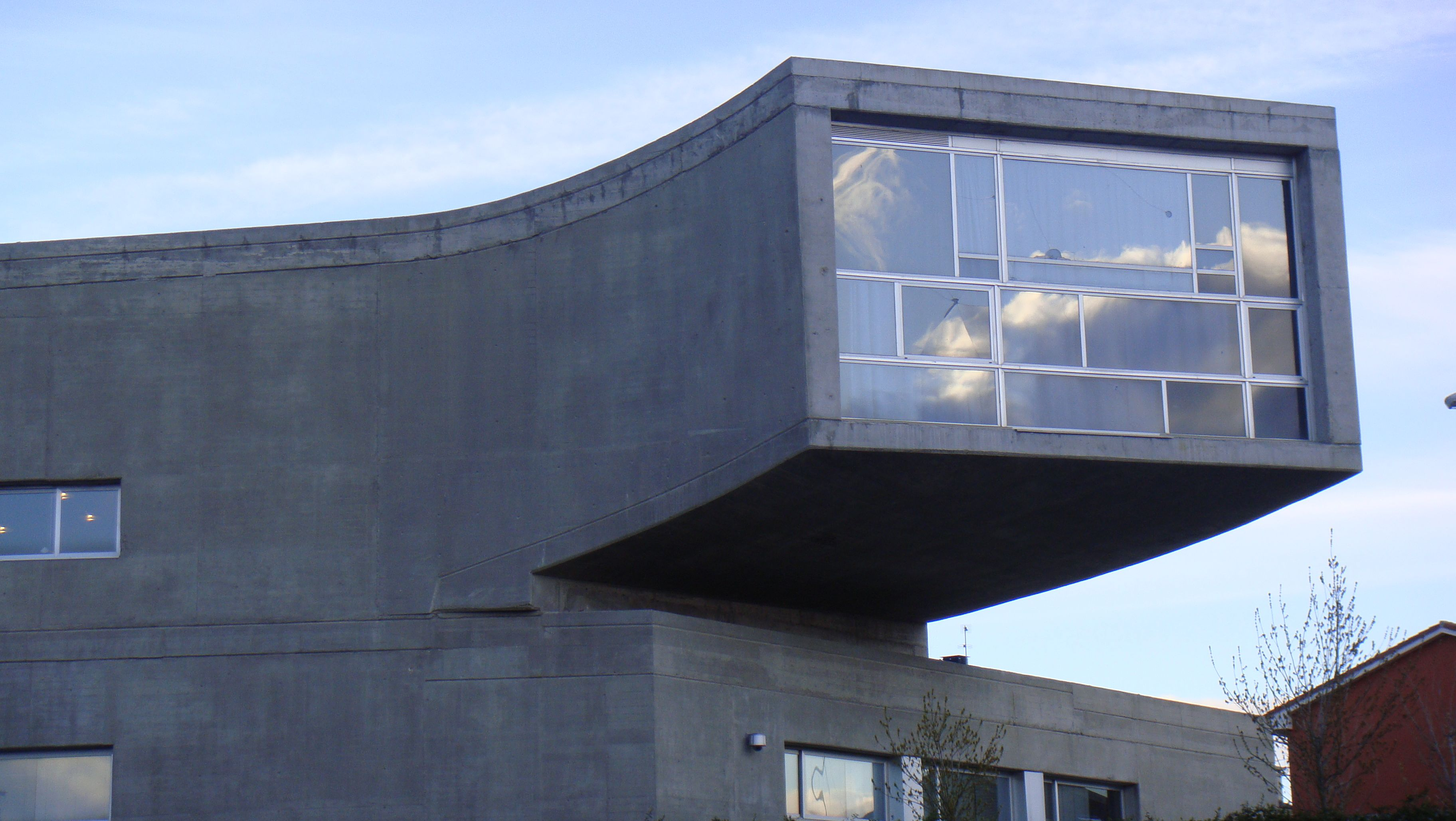 Muguel de Cervantes Library. Colmenar Viejo, Madrid, Spain.